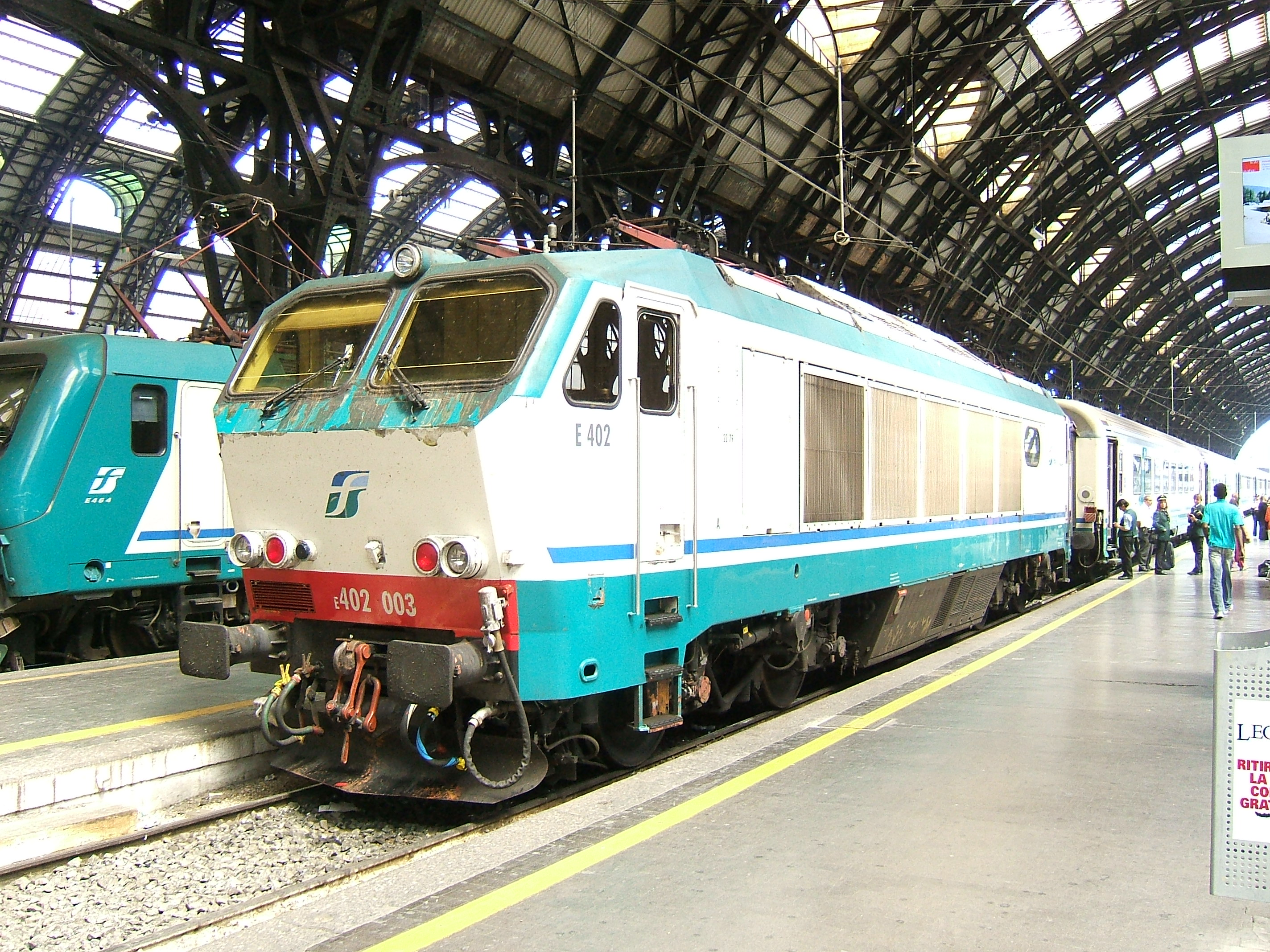 Electric locomotive at Milano C